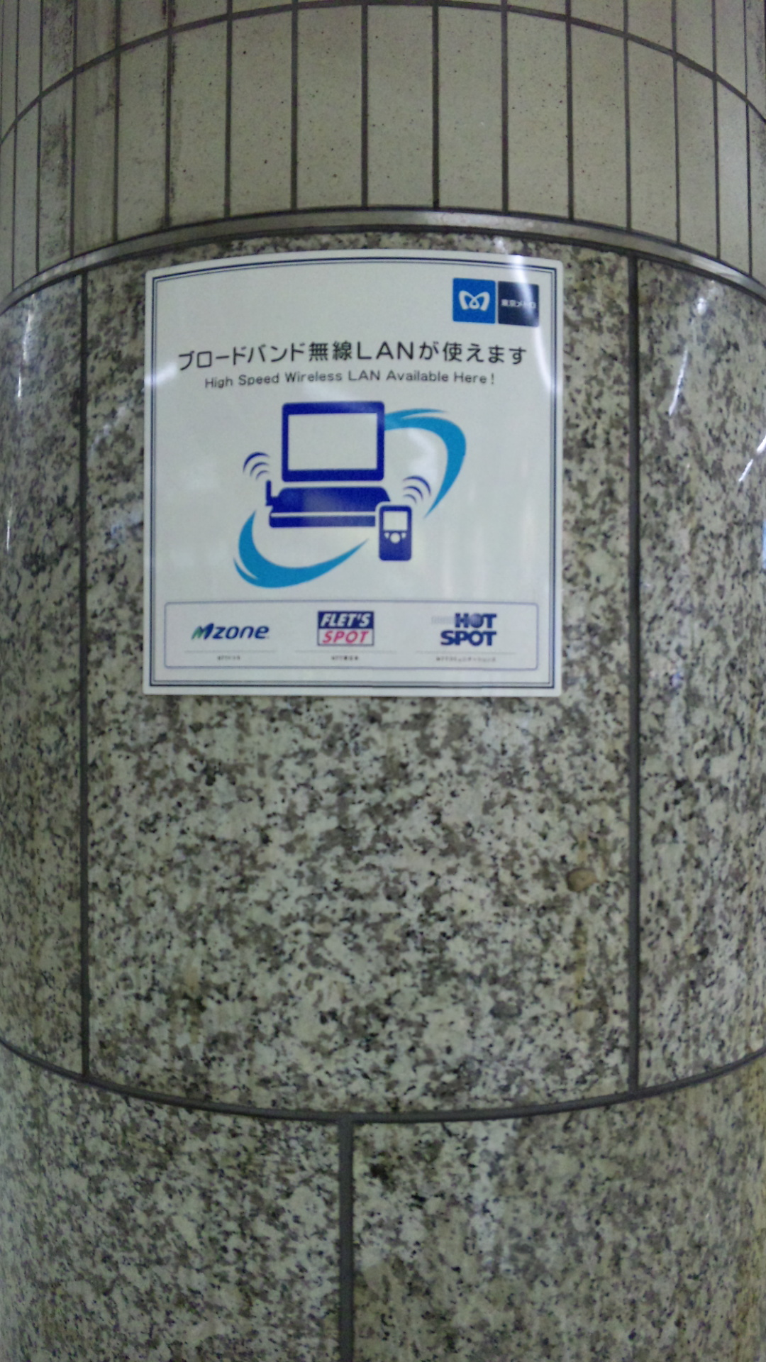 Tokyo Metoro NTT WiFi Spot